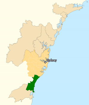 Incorporates or developed using Administrative Boundaries ©PSMA Australia Limited licensed by the Commonwealth of Australia under Creative Commons Attribution 4.0 International licence (CC BY 4.0). Derived from State and Territory Boundaries from the Australian Bureau of Statistics under Creative Commons Attribution 2.5 Australia license (CC BY 2.5 AU)